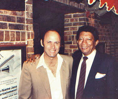 Jazz singer Johnny Hartman at the Village Jazz Lounge in Walt Disney World